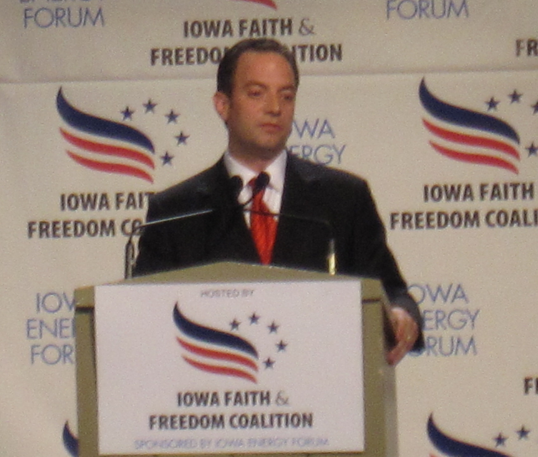 2 Faith and Freedom 002